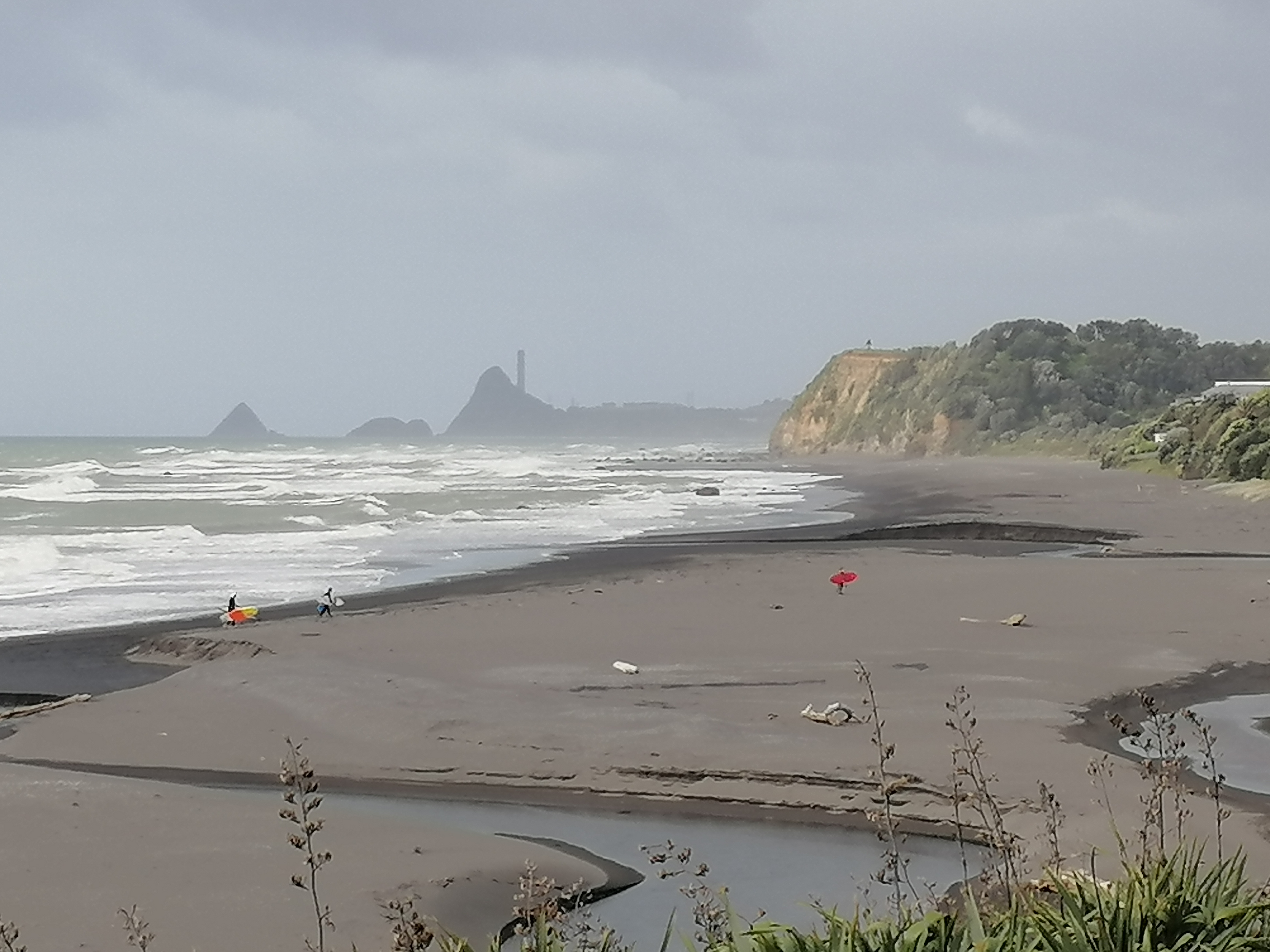 Ōakura